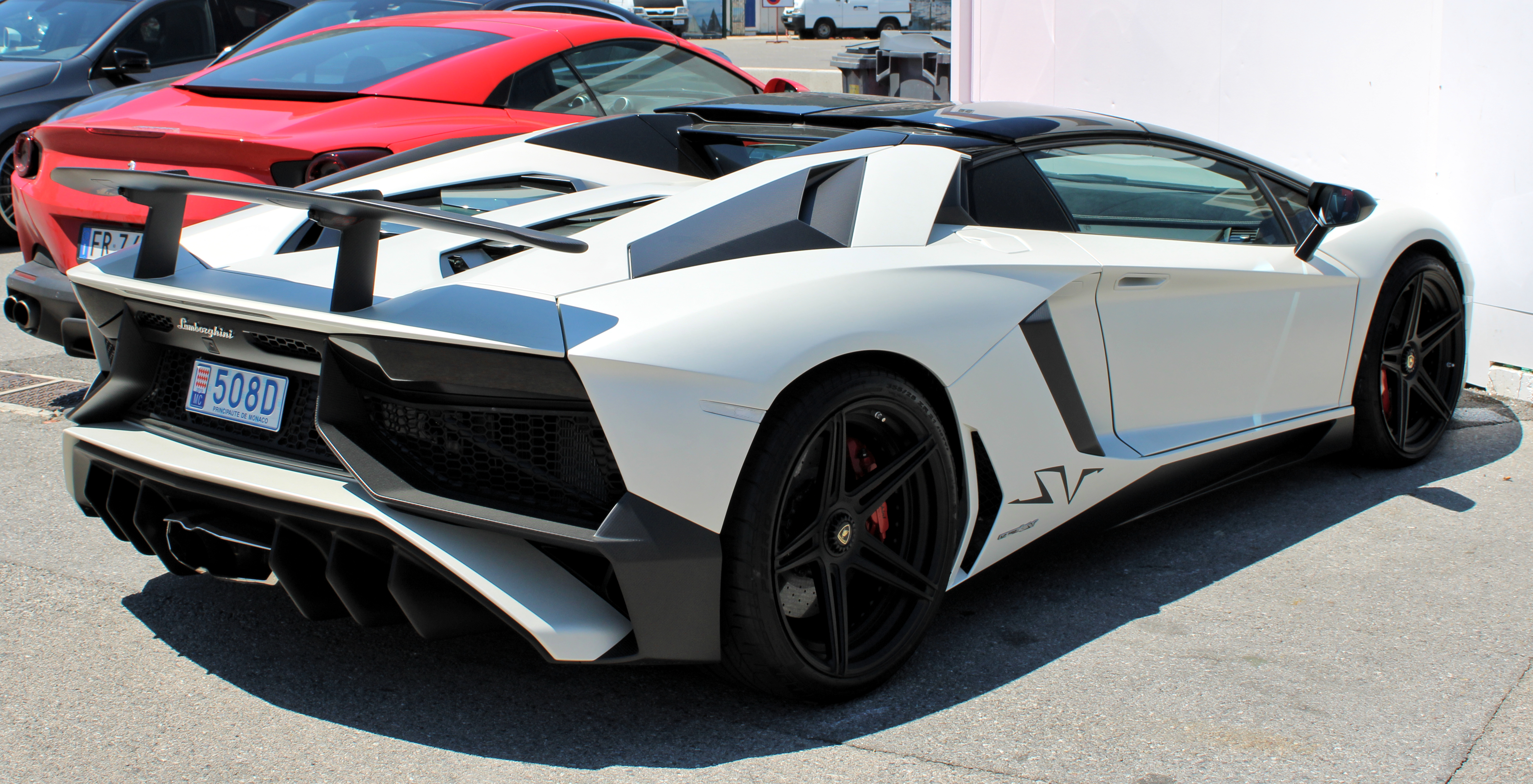 Lamborghini Aventador SV Roadster in Monaco